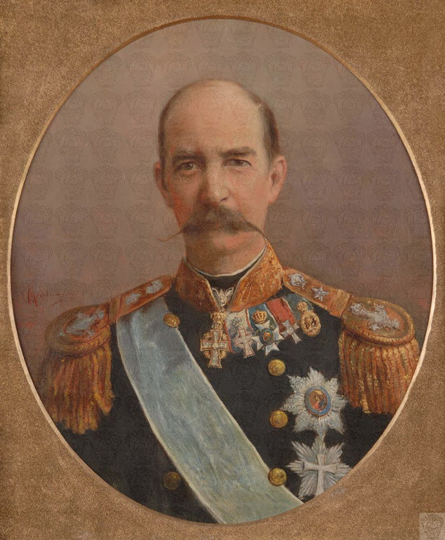 George I of Greece